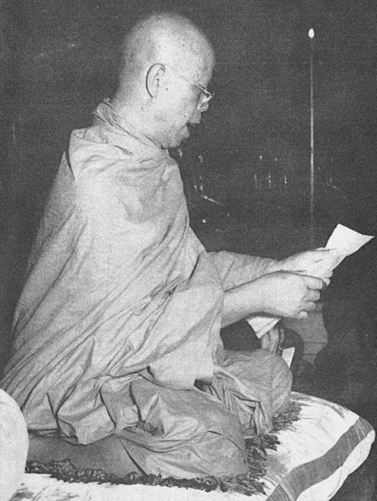 Bhaddanta Lokaratthi, official title Samdach Phrabuddhajinros Sakalamahāsangha Pāmokkha, Sangharājā of Laos reads a speech at the opening of the Laos-Cambodia session of the Buddhist Council (Chaṭṭa Sangāyanā), 1955-04-28.